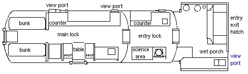 NEEMO, an acronym for NASA Extreme Environment Mission Operations, is a NASA program for studying human survival in preparation for future space exploration. The missions are conducted out of the NOAA's underwater laboratory, Aquarius.